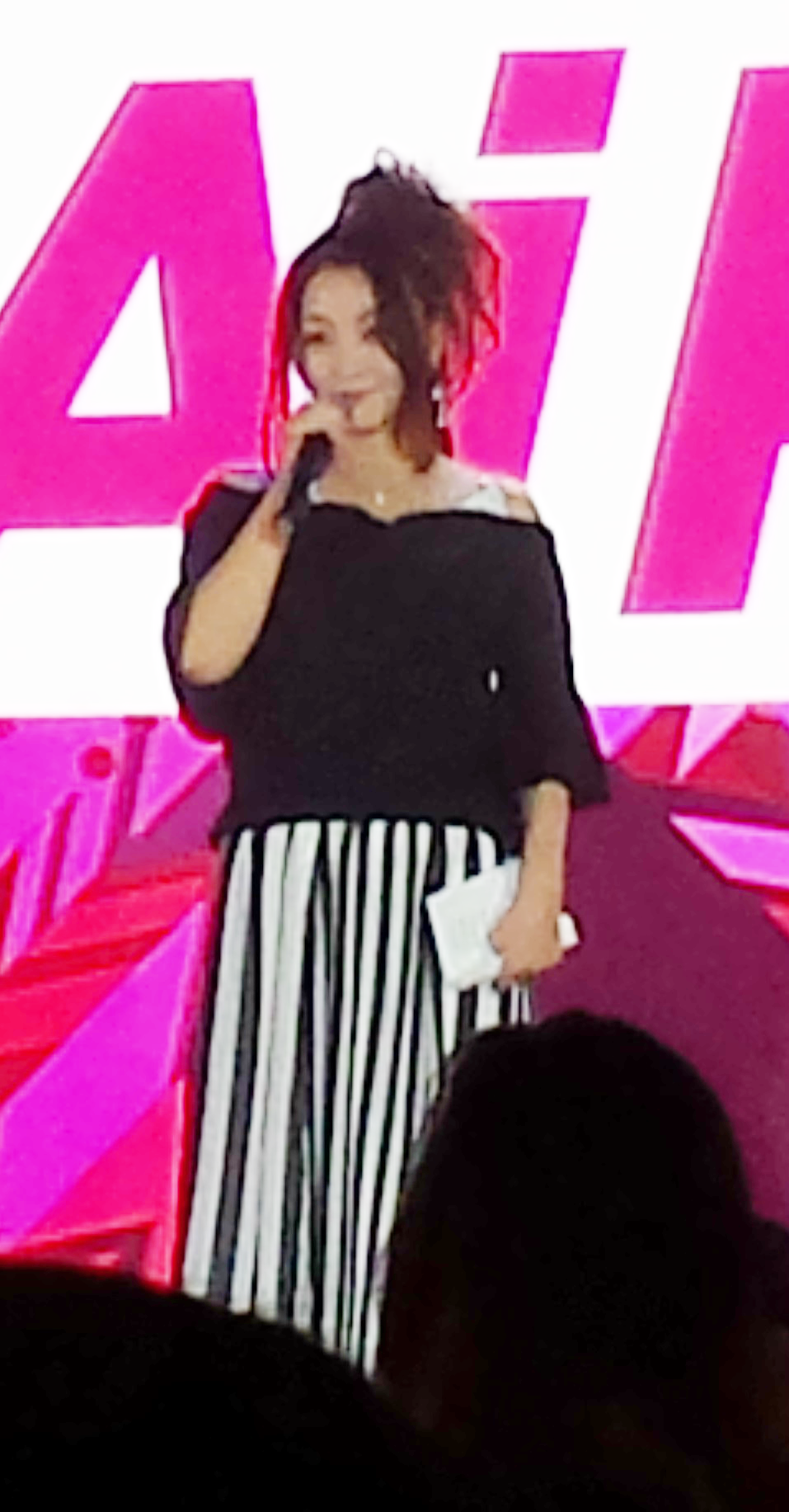 AiRI at Cosplay Mania 2018 Photo retouched by XYZtSpace